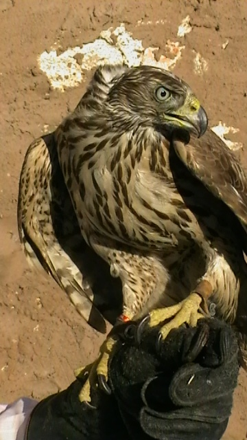 Accipiter gentilis captured in the Tangier area and raised by falconers of Qwacem, Doukkala, Morocco) Walon: Wôteu ås colons mansåd, apicî dins l' payis d' Tandjî, et aclevé pa les wôtursîs d' Qwacen, Douccala, Marok